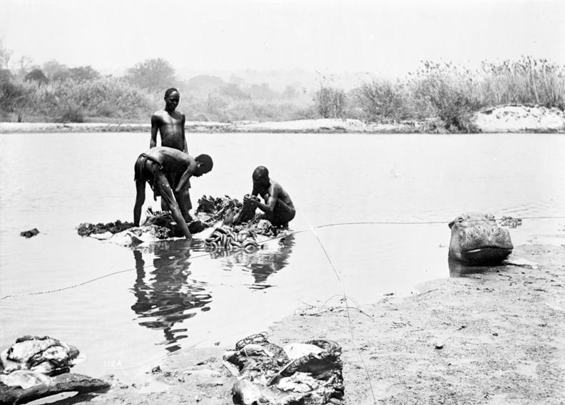 German-East Africa, Negroes taking apart a hippopotamus.